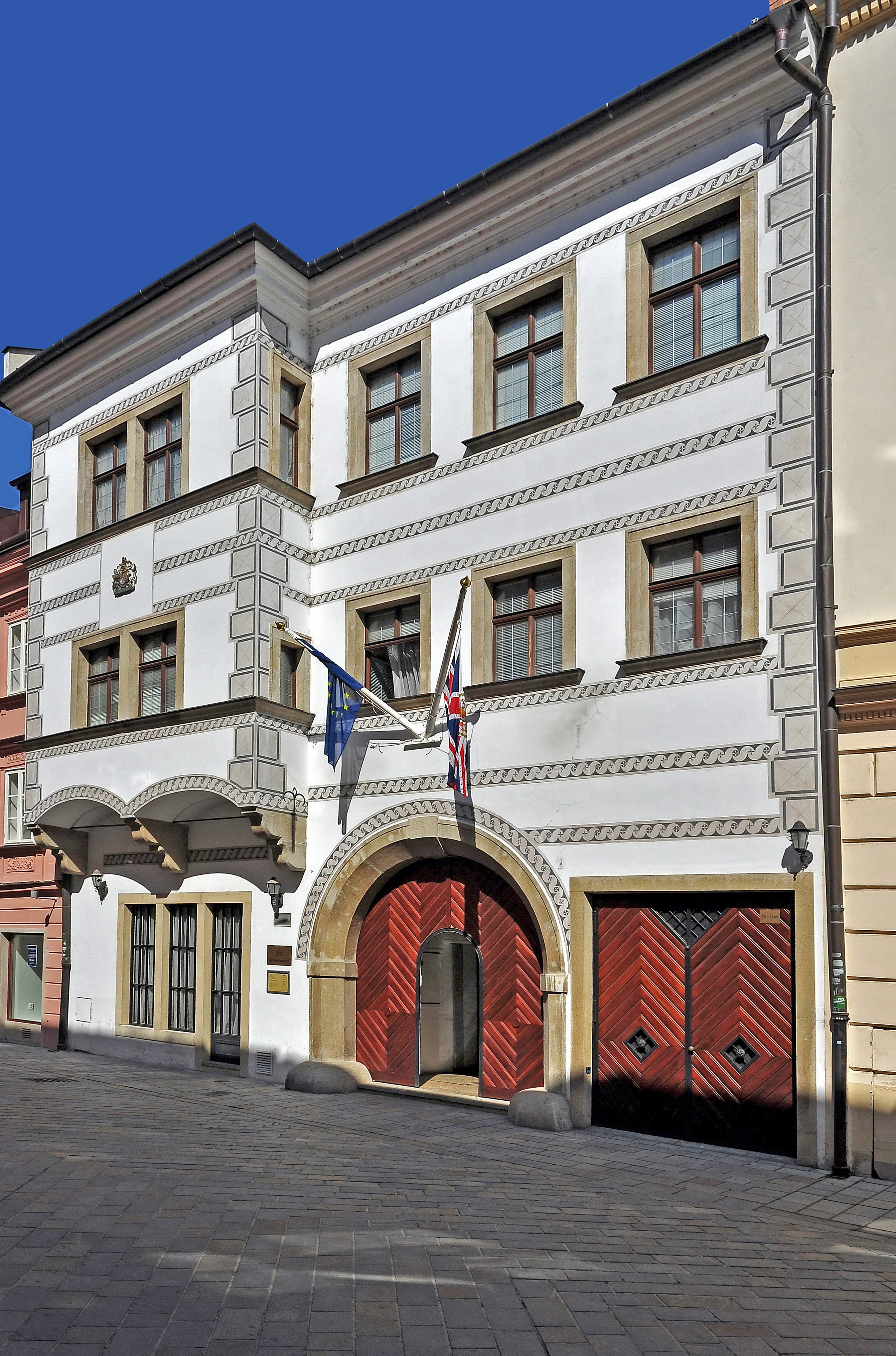 Bratislava, British Embassy, Panská 16